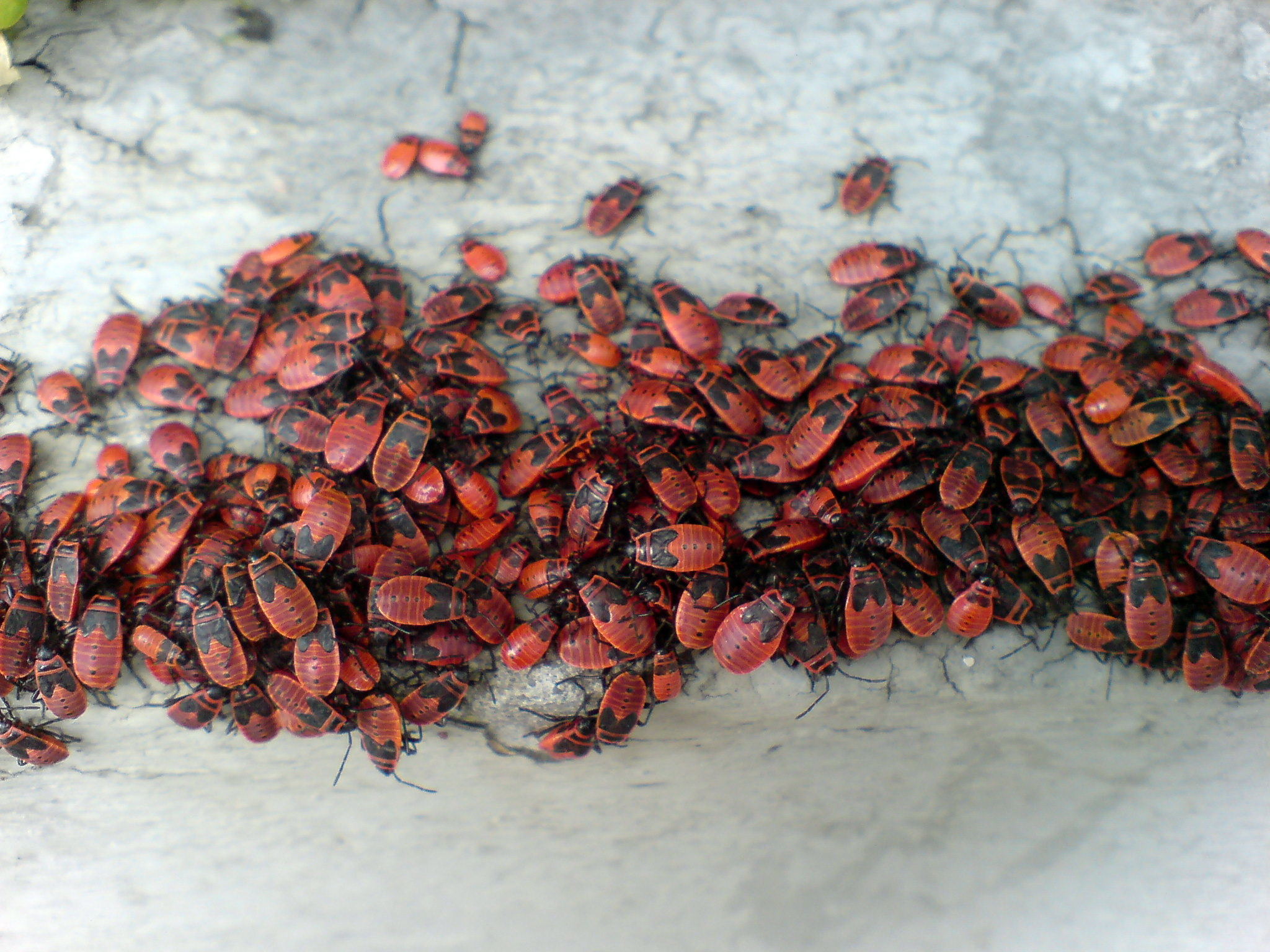 Group of firebug-nymphs (Pyrrhocoris apterus) in a garden in Ihringen, Kaiserstuhl, Germany.